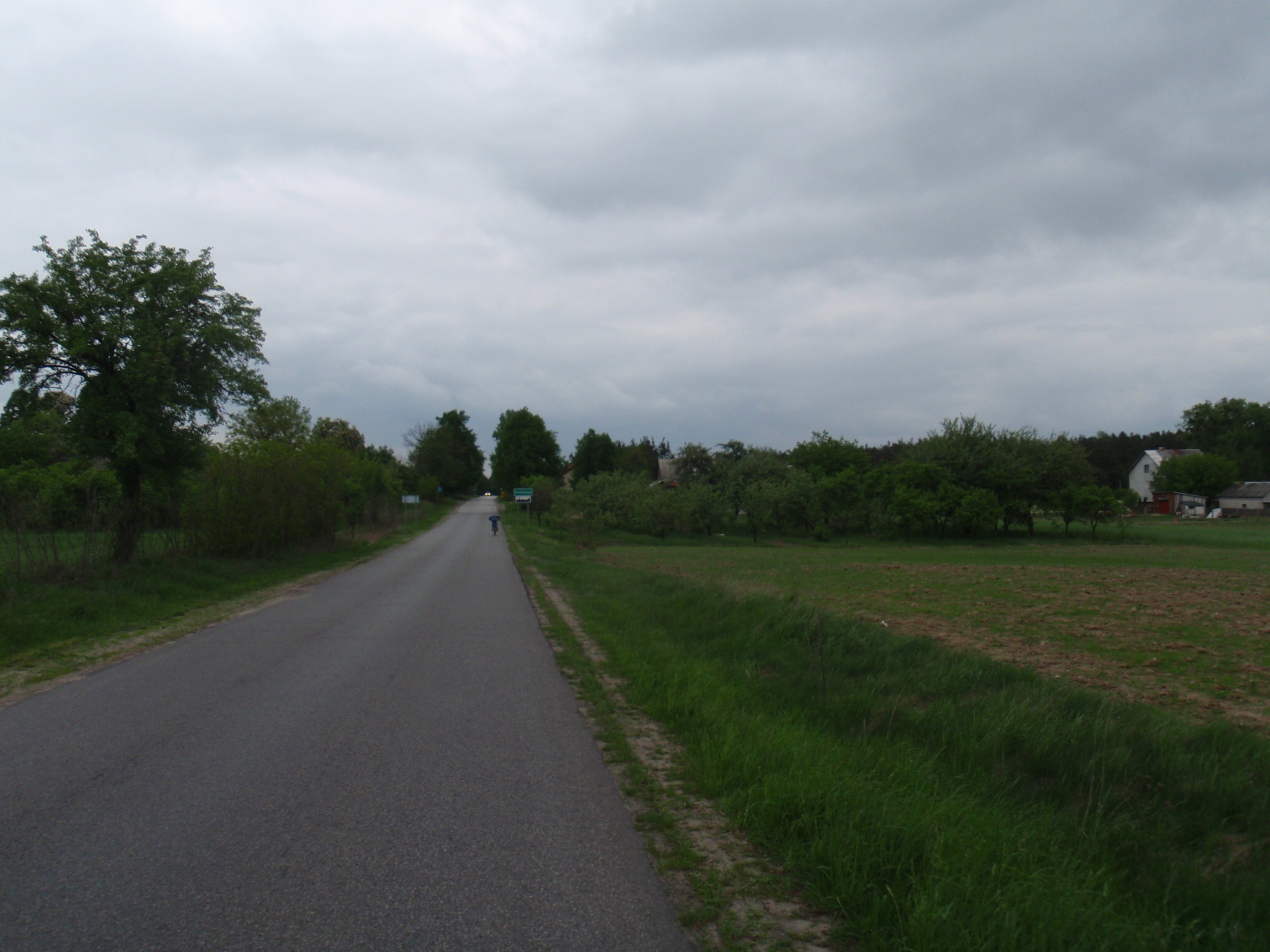 Enterance to Podmieście from Bobrowniki